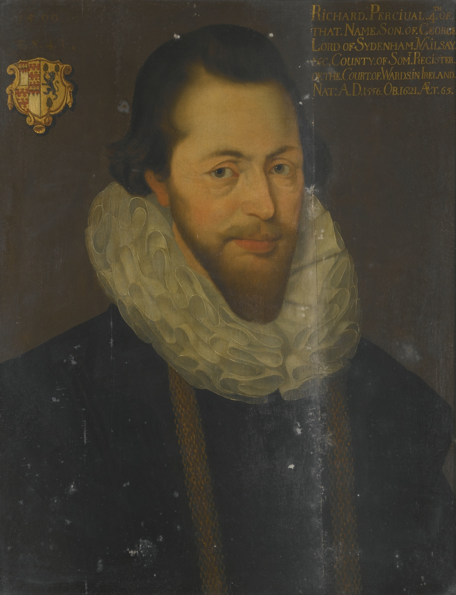 Portrait of Richard Perceval (1556-1621), of Twickenham, Somerset, Secretary of the Court of Wards In Ireland.